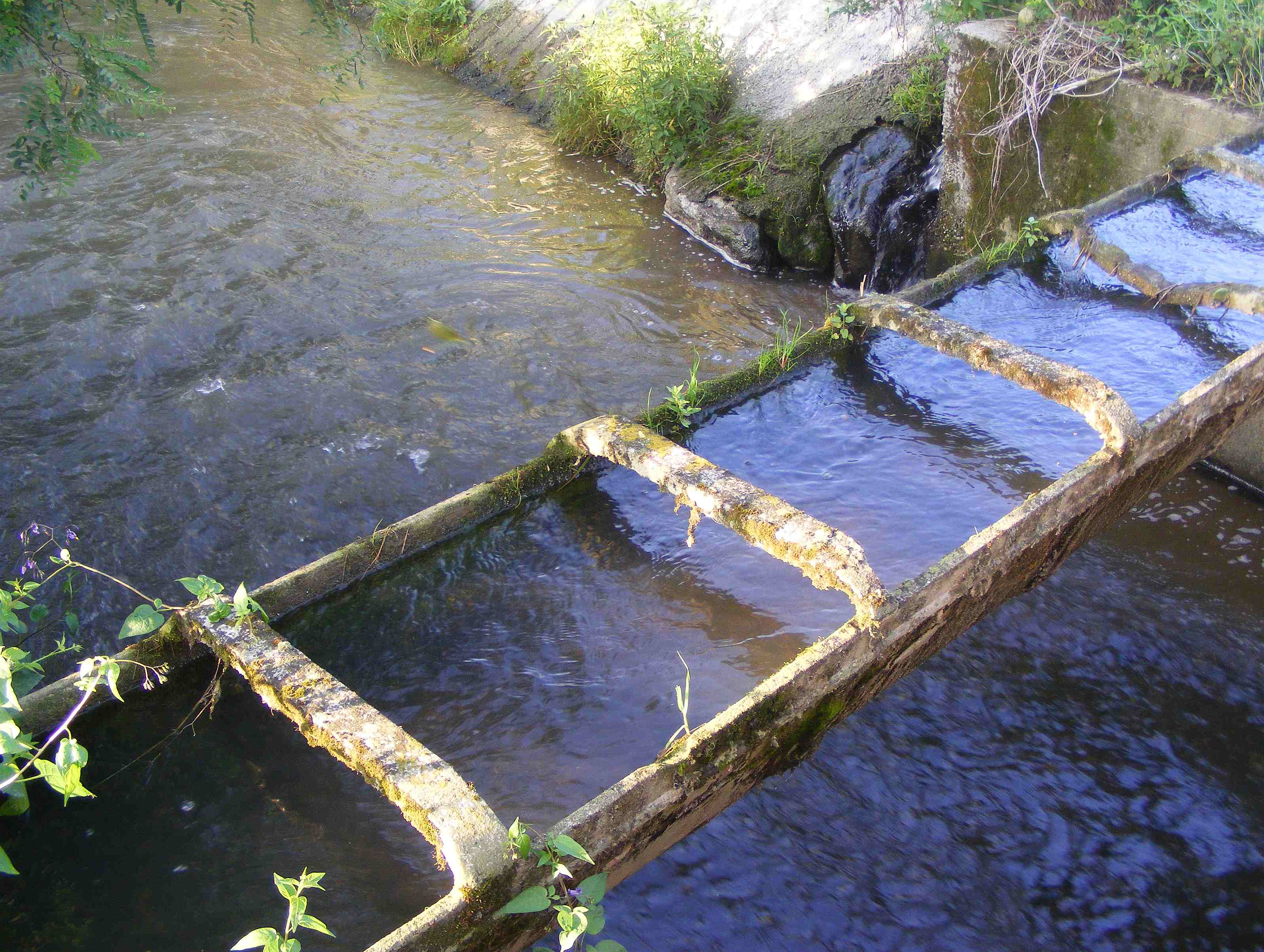 Canal Roggia Marchesa between Massazza and Salussola (BI, Italy)